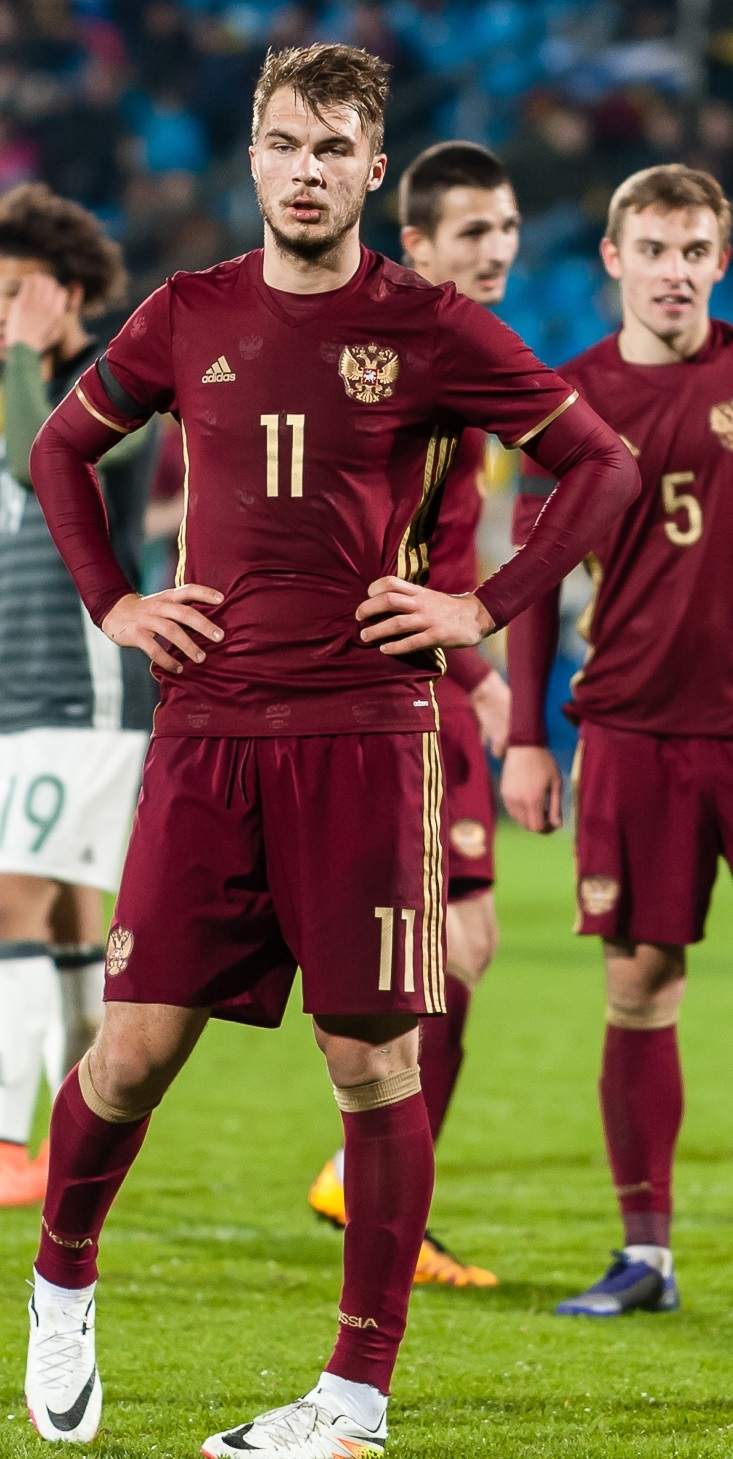 Nikolay Komlichenko in action for the Russia under-21 national football team in a game against Germany under-21 in Rostov-on-Don on 29 March 2016.